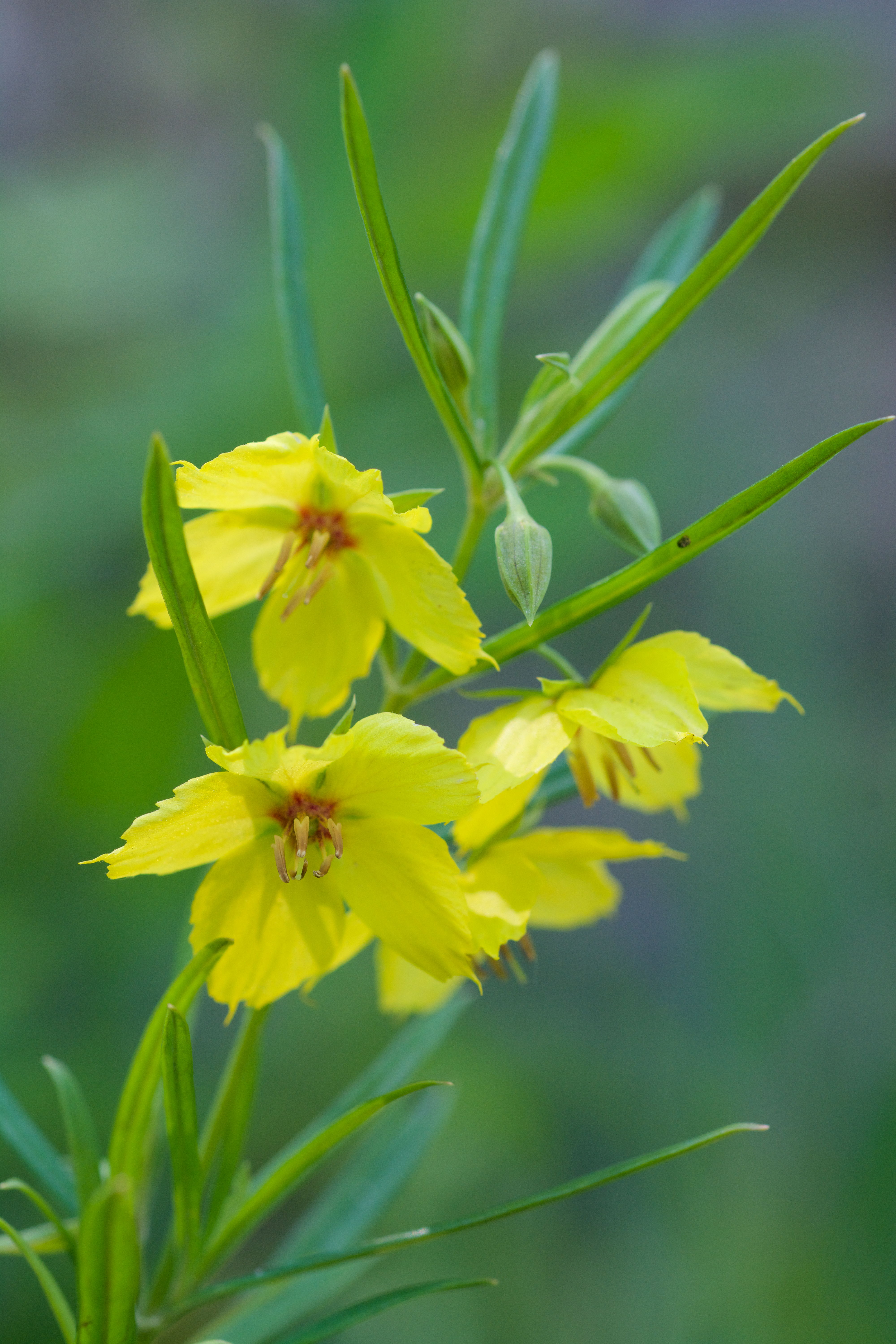 Species from central North America with some disjunct populations in the Appalachians, Oklahoma, Alabama, Georgia, Massachusetts, Connecticut Growing along North Sylamore Creek at Gunner Pool Recreation Area adjacent to Blanchard Springs in the Ozark-St. Francis National Forest, Stone County, Arkansas